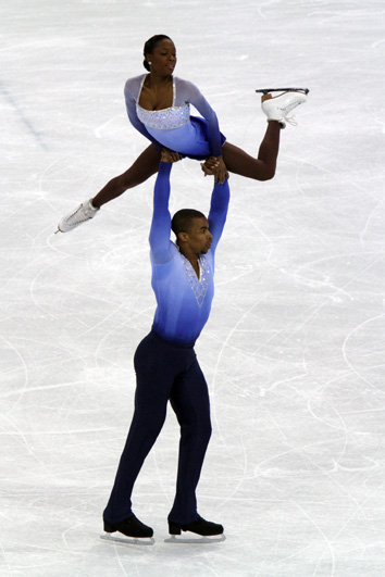 Vanessa James and Yannick Bonheur at the 2010 Winter Olympics.